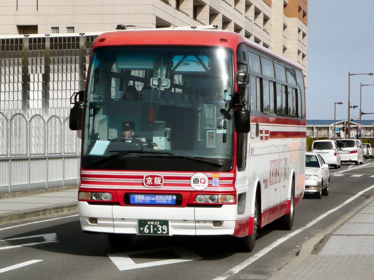 Express bus "Direct Express Chokkyu Kyoto Go" operated by Keihan Bus Co., Ltd. (Car No. H-1890)